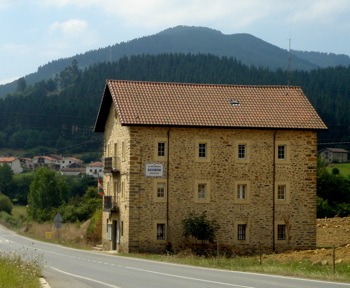 Town Hall of Okondo (Araba, Basque Country, Spain)